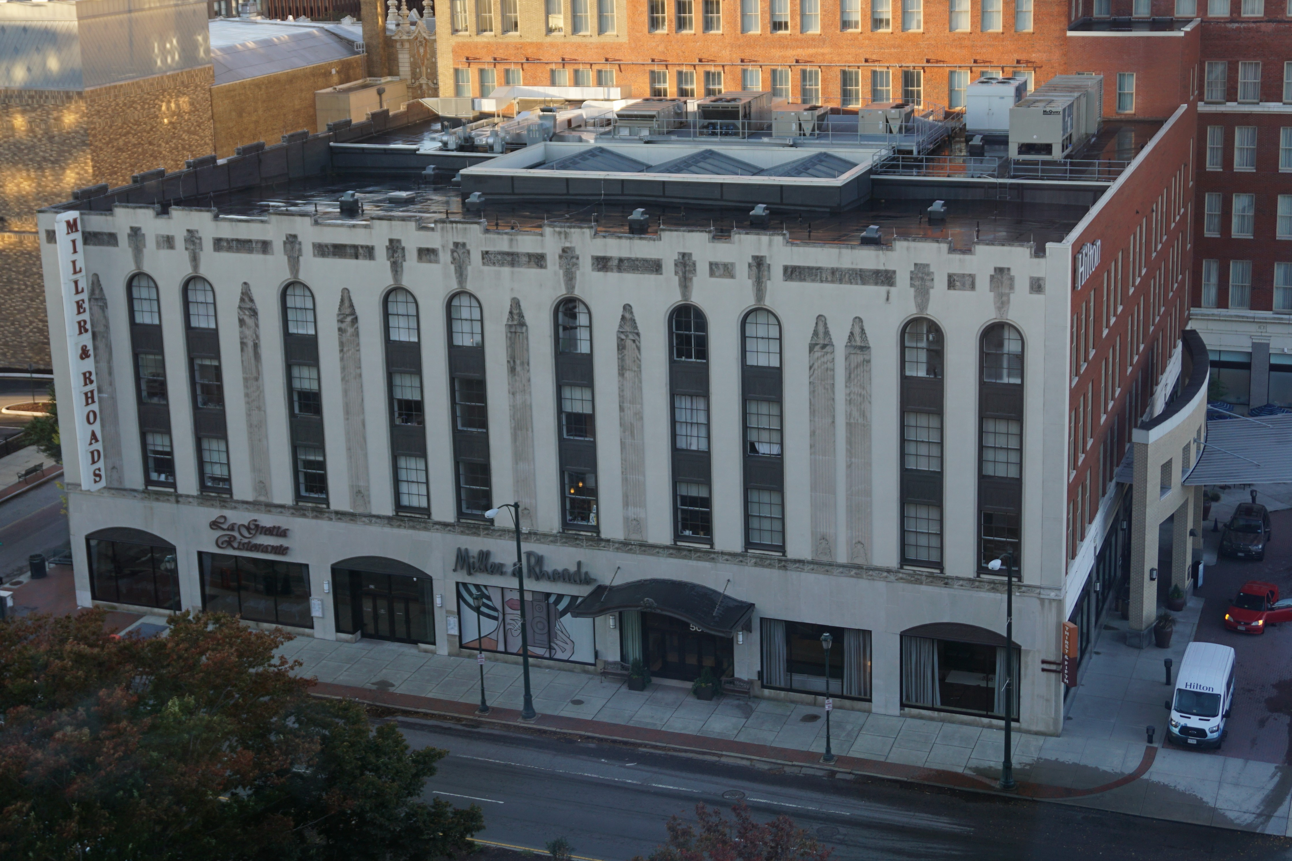 Photo of historic Miller & Rhoads department store at 501 E. Broad St. in Richmond, VA, taken on 10/30/17